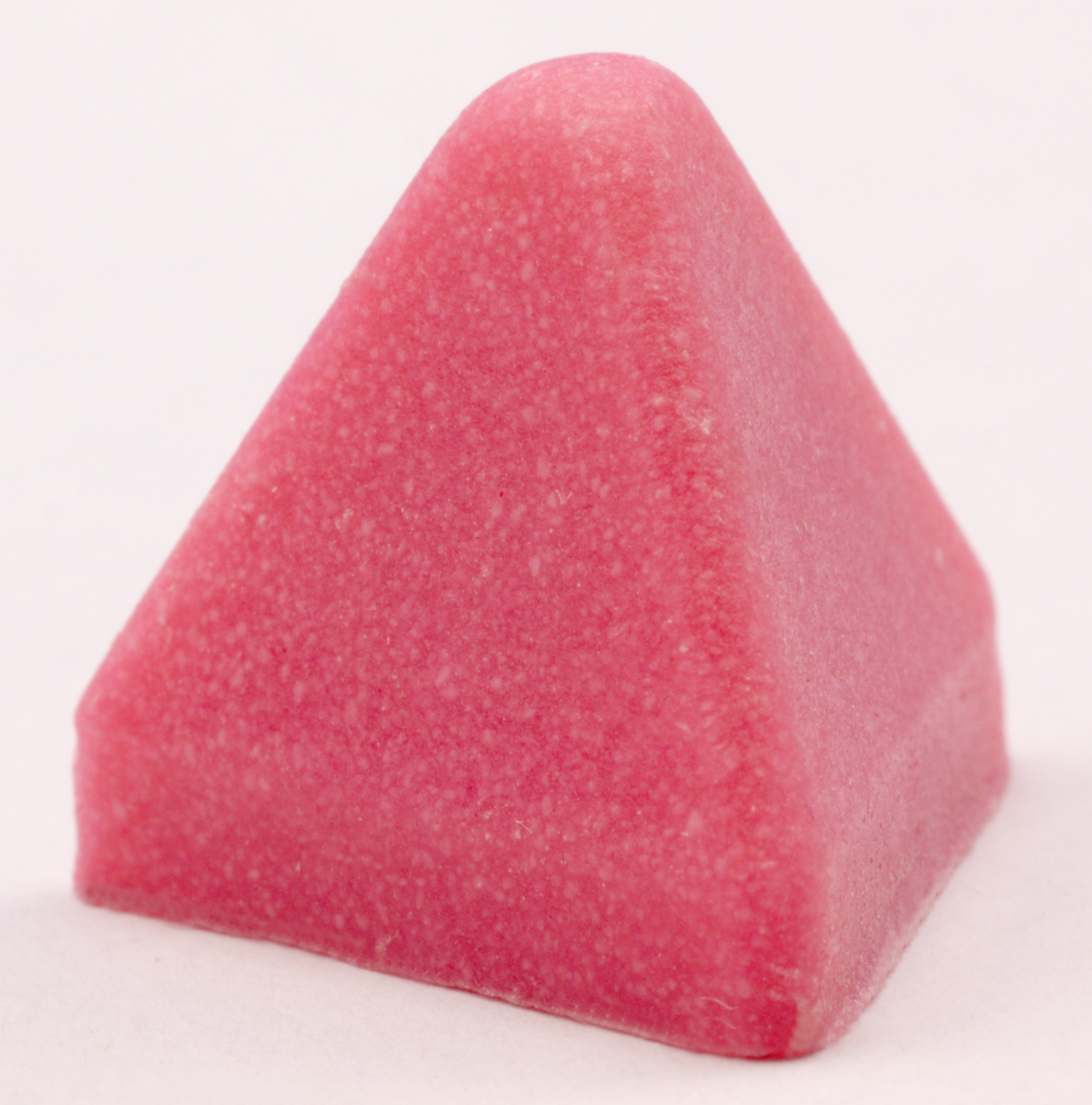 abrasive plastic media